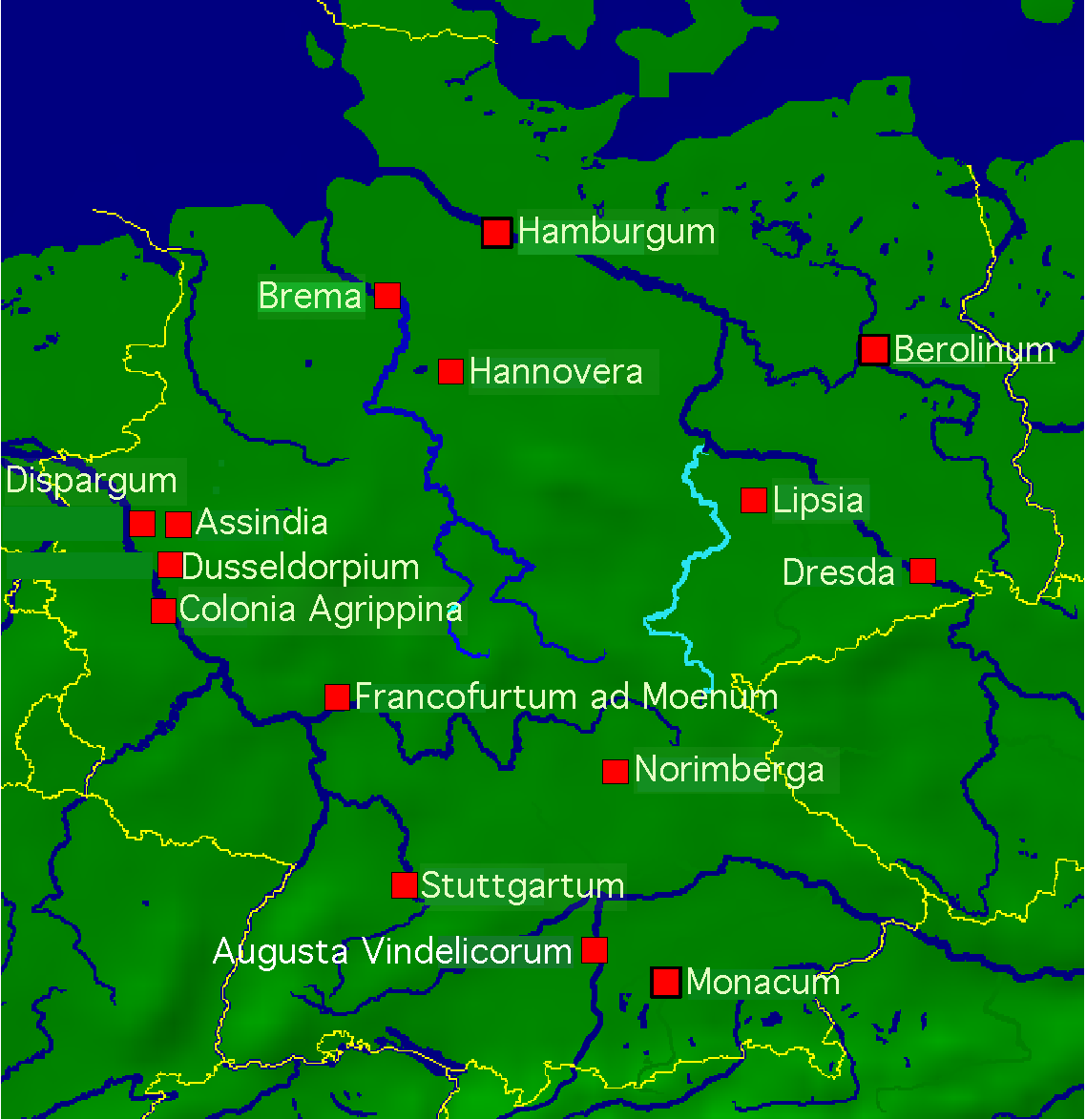 Saale in Germany with Latin place names.